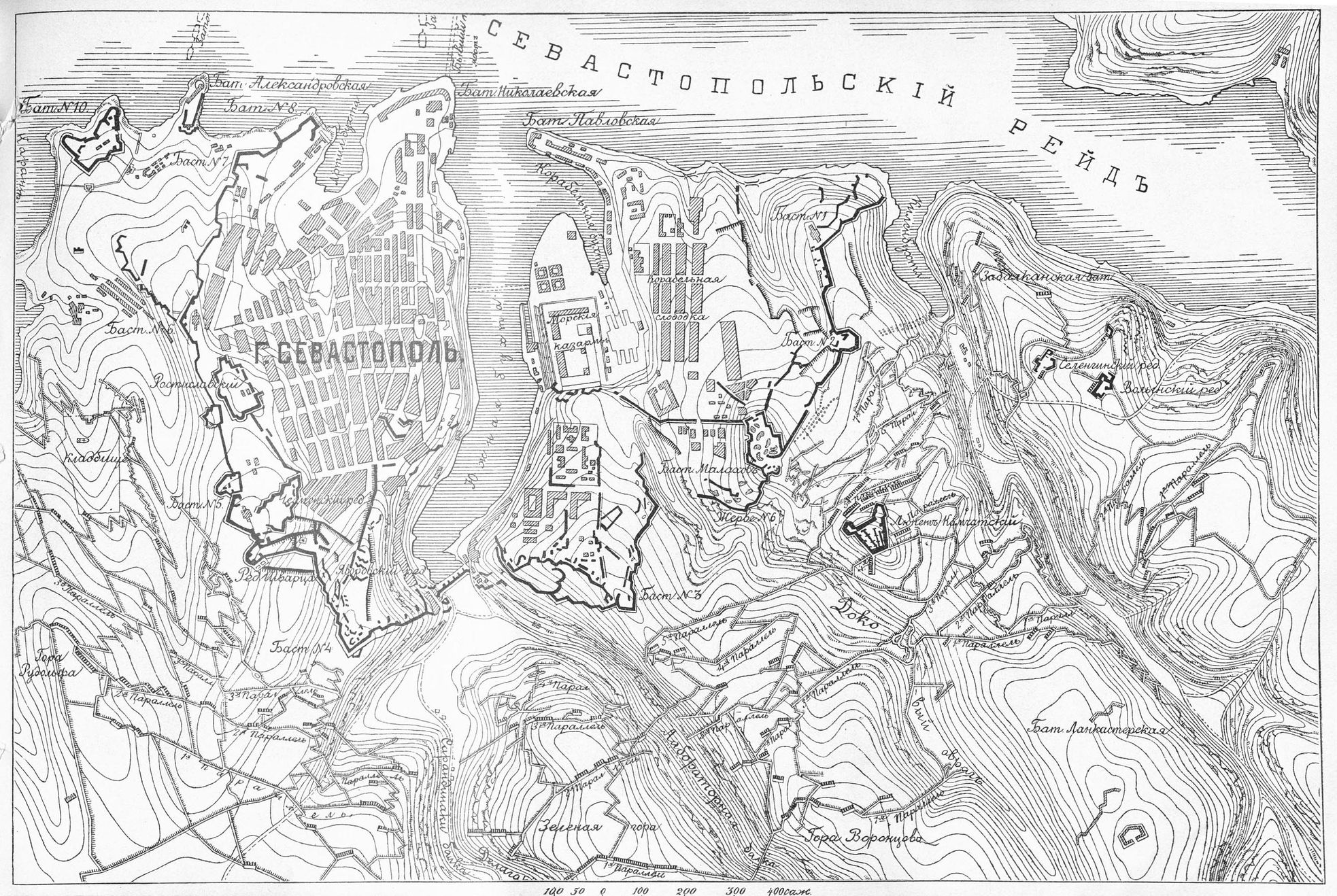 Plan of a fortress of Sevastopol during the Crimean War 1853-1855